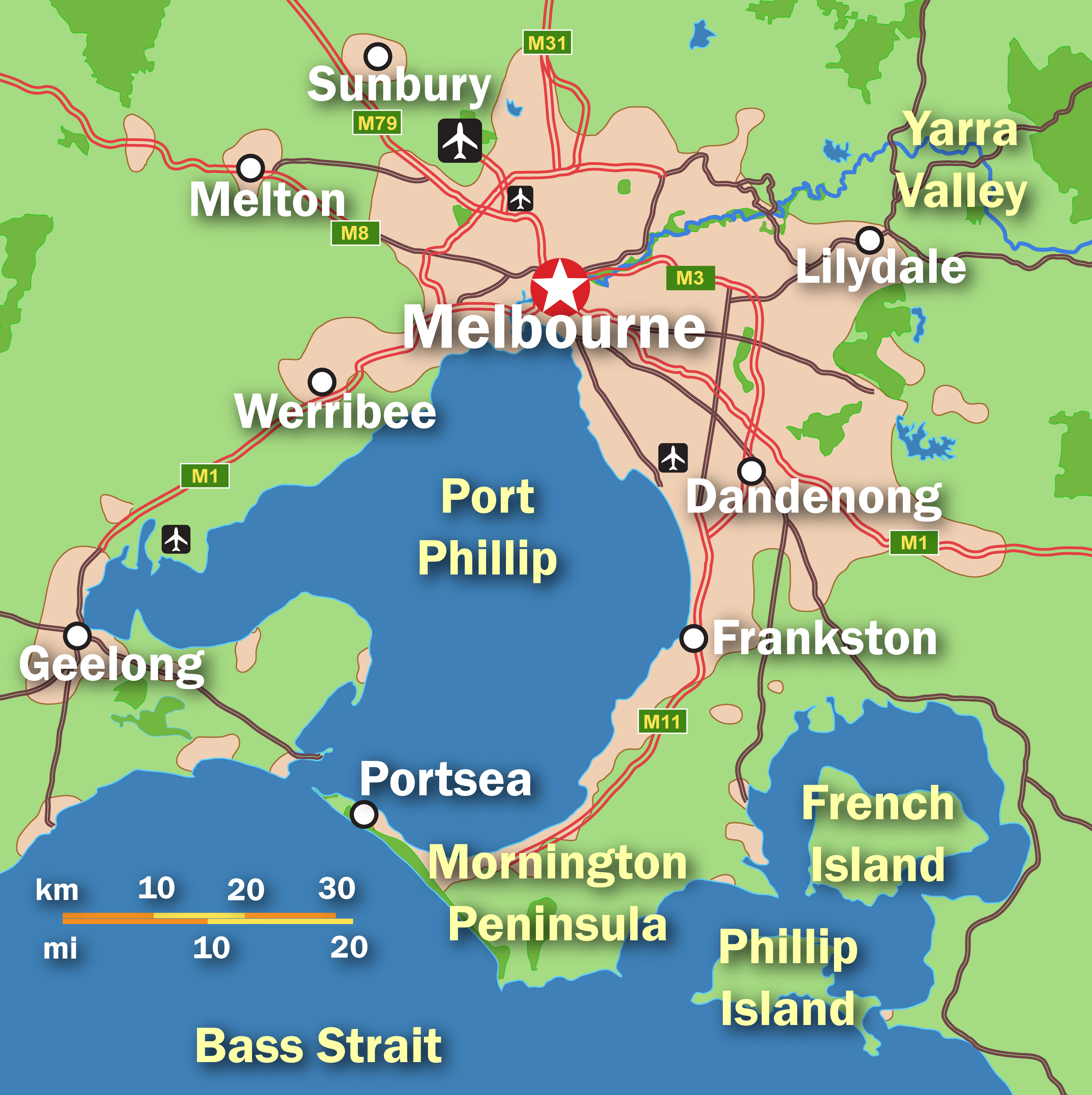 A simple PNG format map of Greater Melbourne